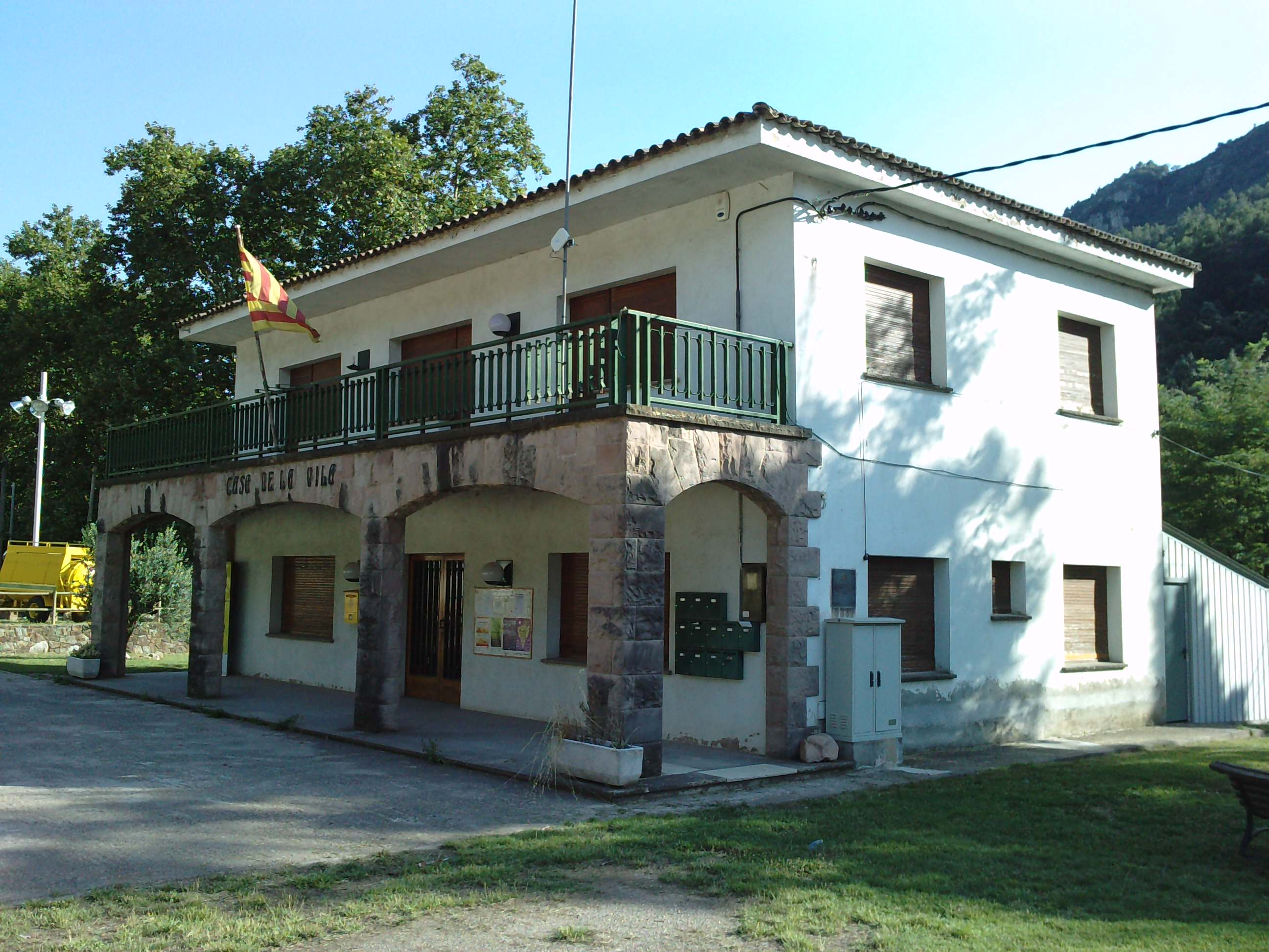 Tagamanent Town Council